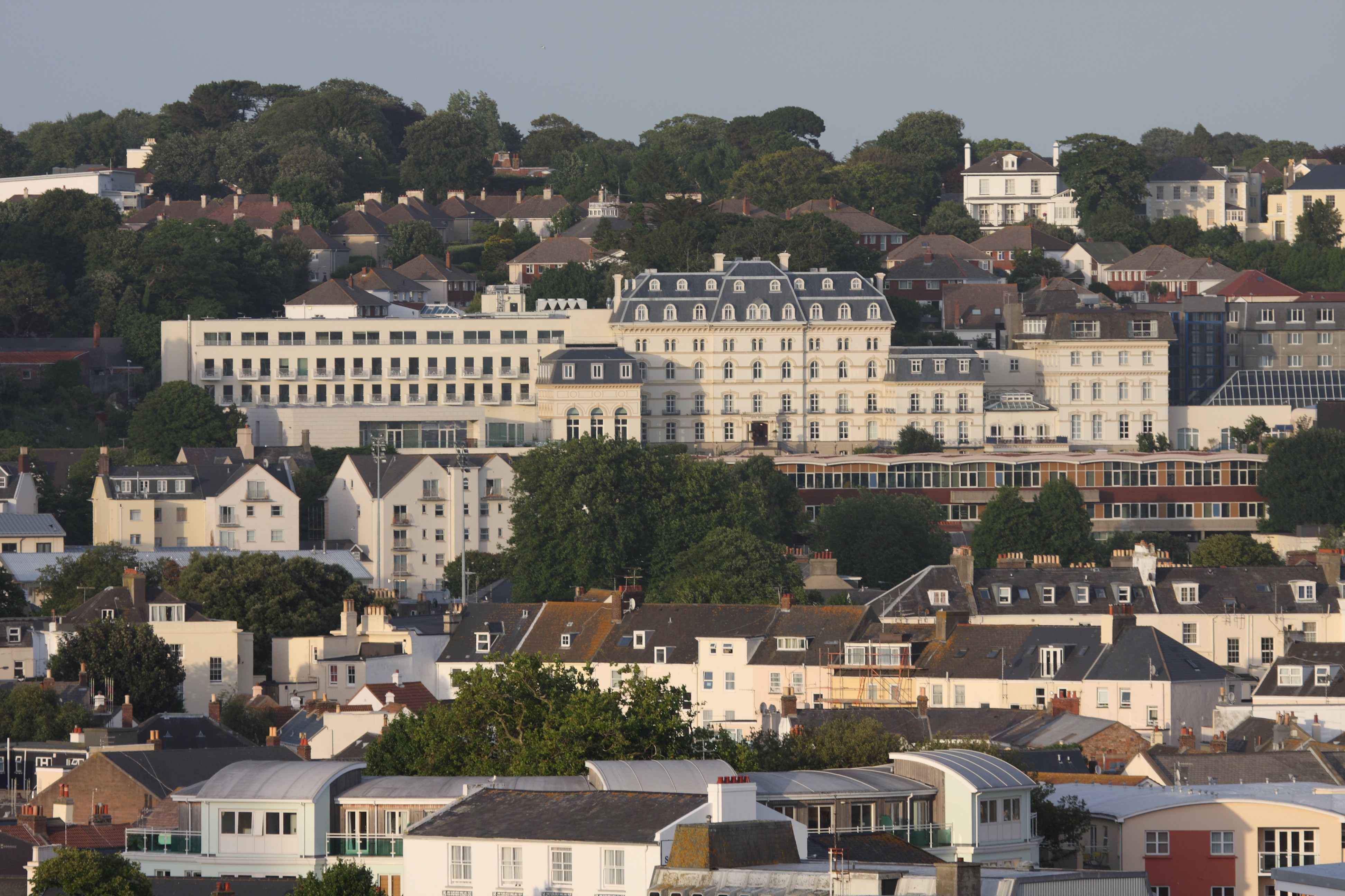 Hotel de France, St. Saviour, Jersey. Viewed across St. Helier.